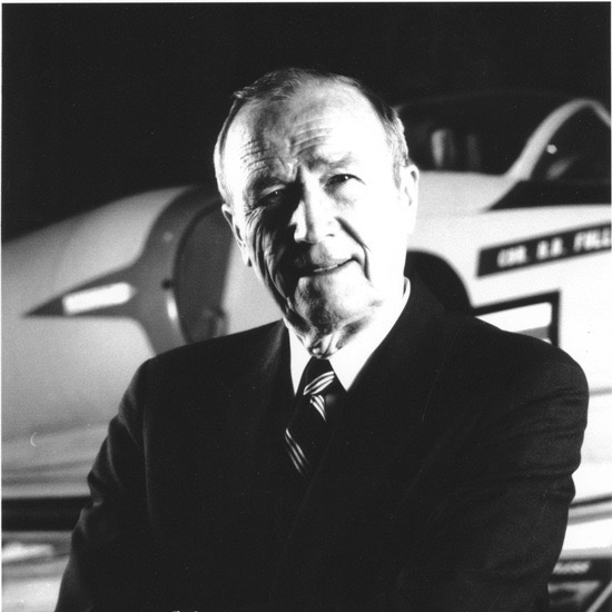 Vice Admiral Donald D. Engen. Date specified in SDASM archive (3/3/2005) is after Engen's death so is likely the date the photo was uploaded rather than the date photo was taken. Image was likely taken when Engen was Director of the National Air & Space Museum between 1996 and 1999. Image was cropped to square aspect ratio to better fit on his Wiki article.